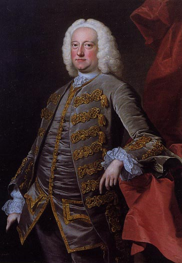 Charles Jennens (1700 – 20 November 1773) of Gopsall Hall